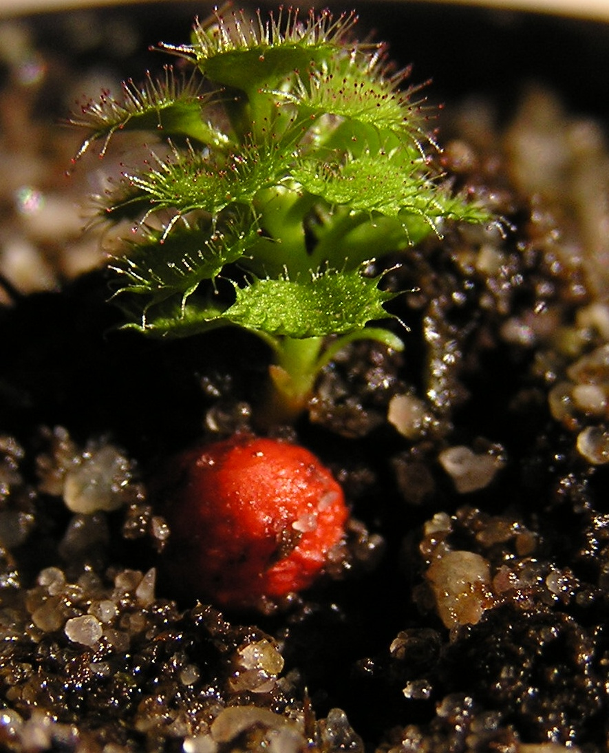 Drosera stolonifera